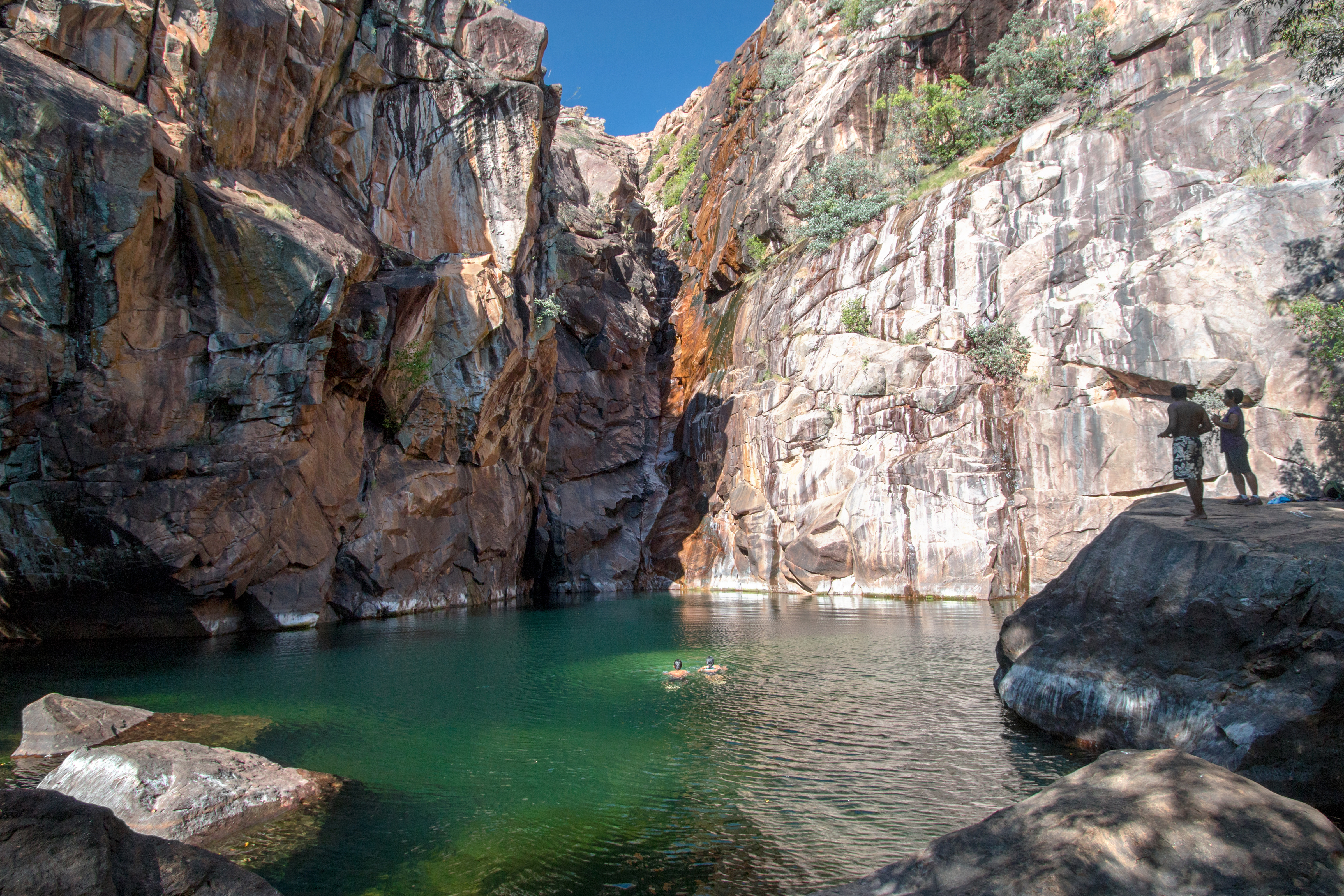 Motor Car Falls, Kakadu National Park